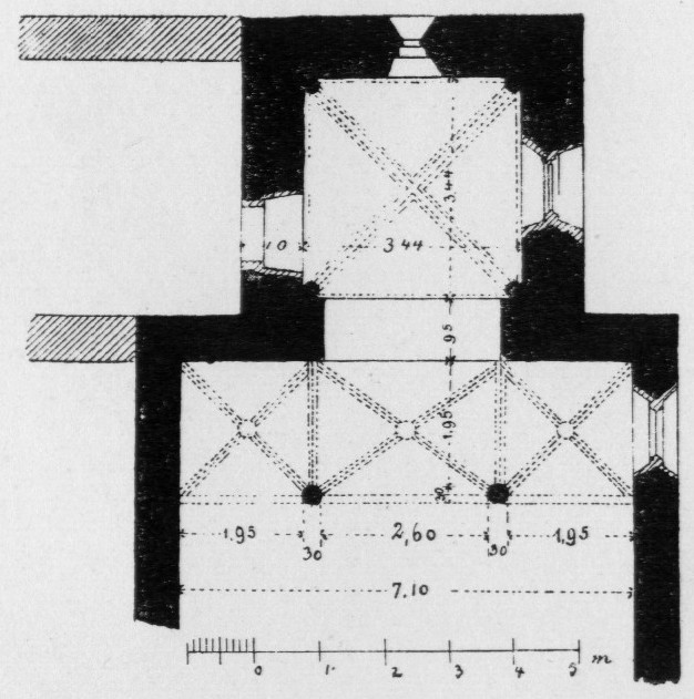 The church) atop the Michaelsberg in Cleebronn. Ground plan